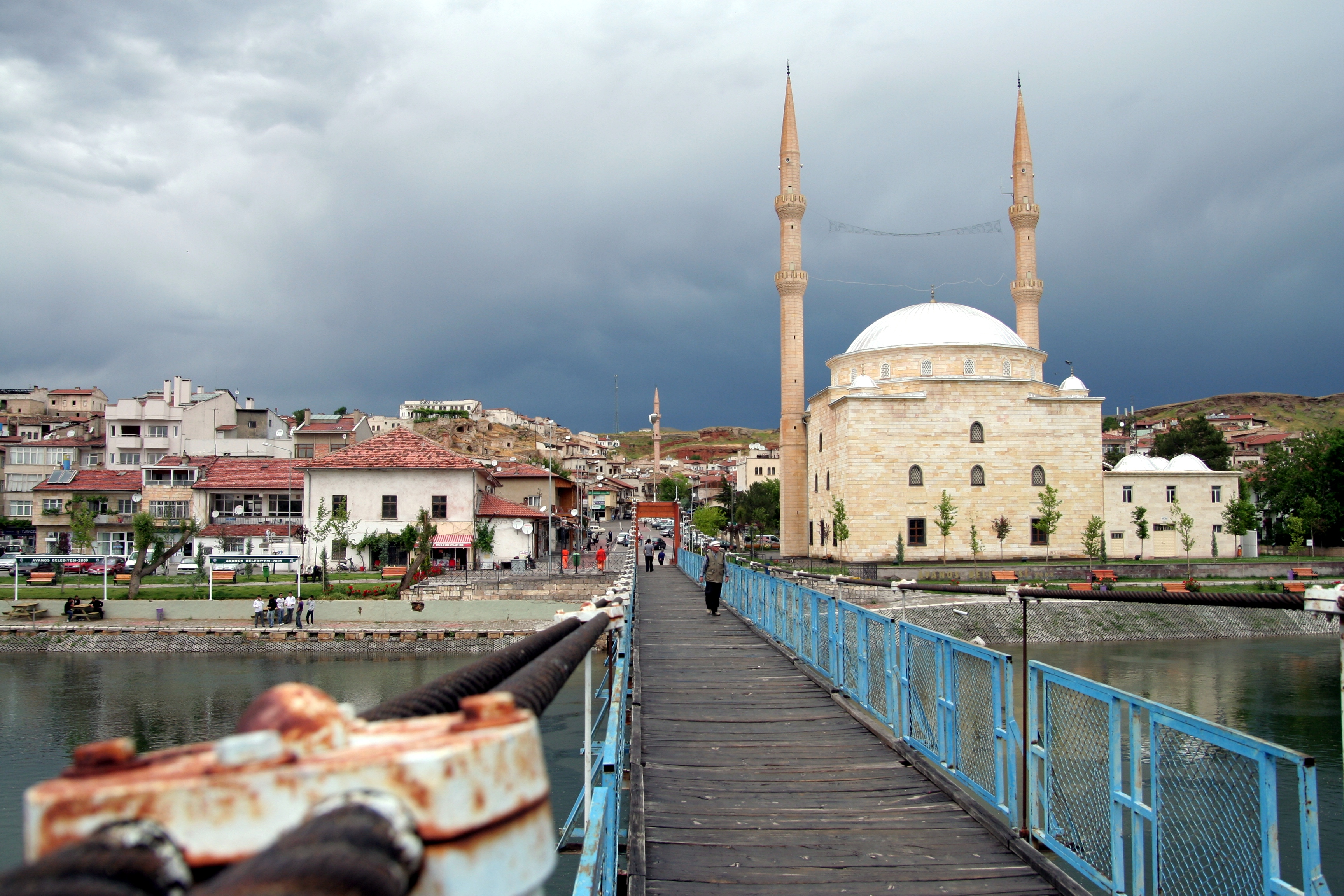 The city center of Avanos, Cappadocia.